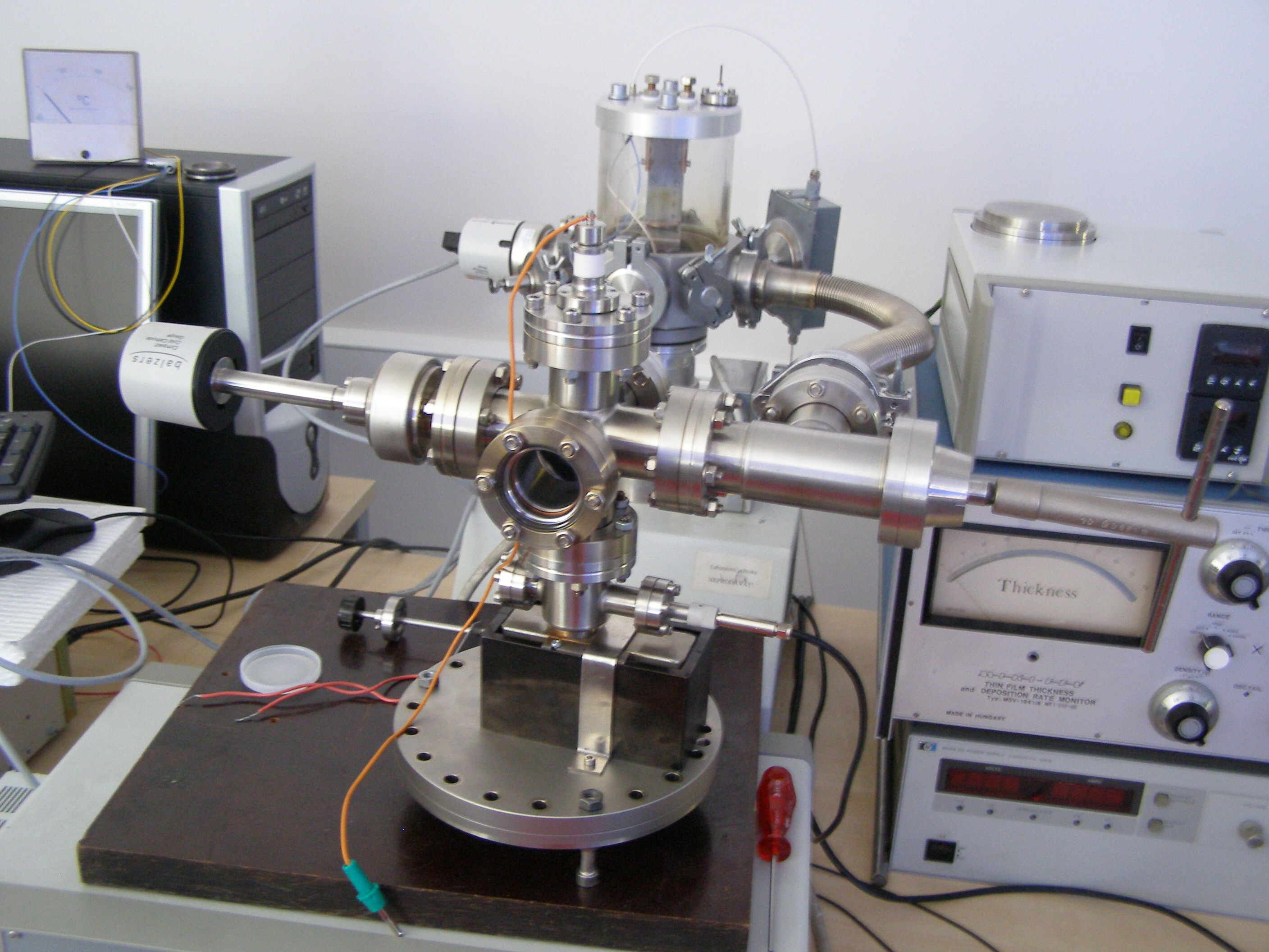 Ultravacuum device